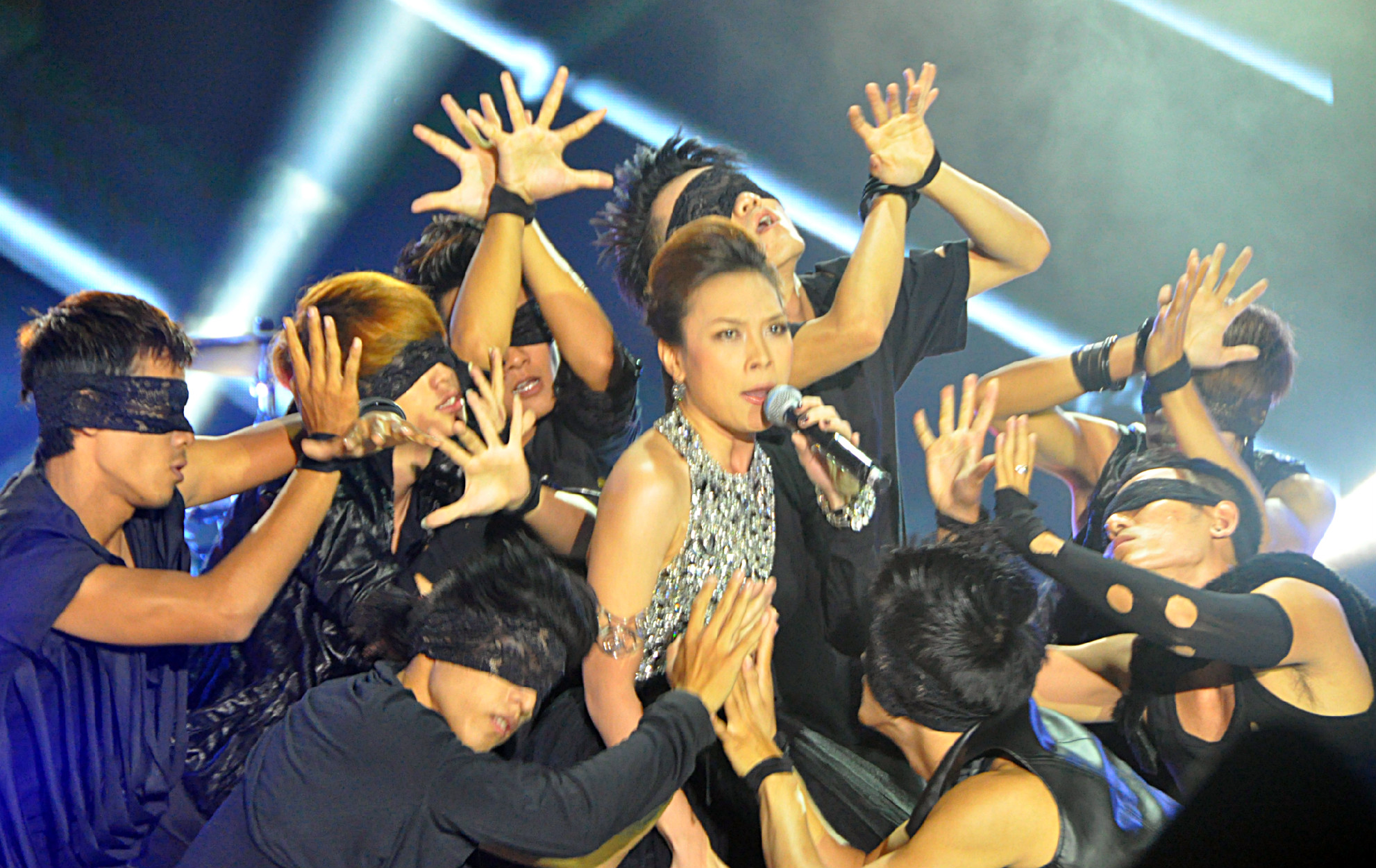 My Tam Performs at MTV EXIT Concert in Hanoi, May 26, 2012